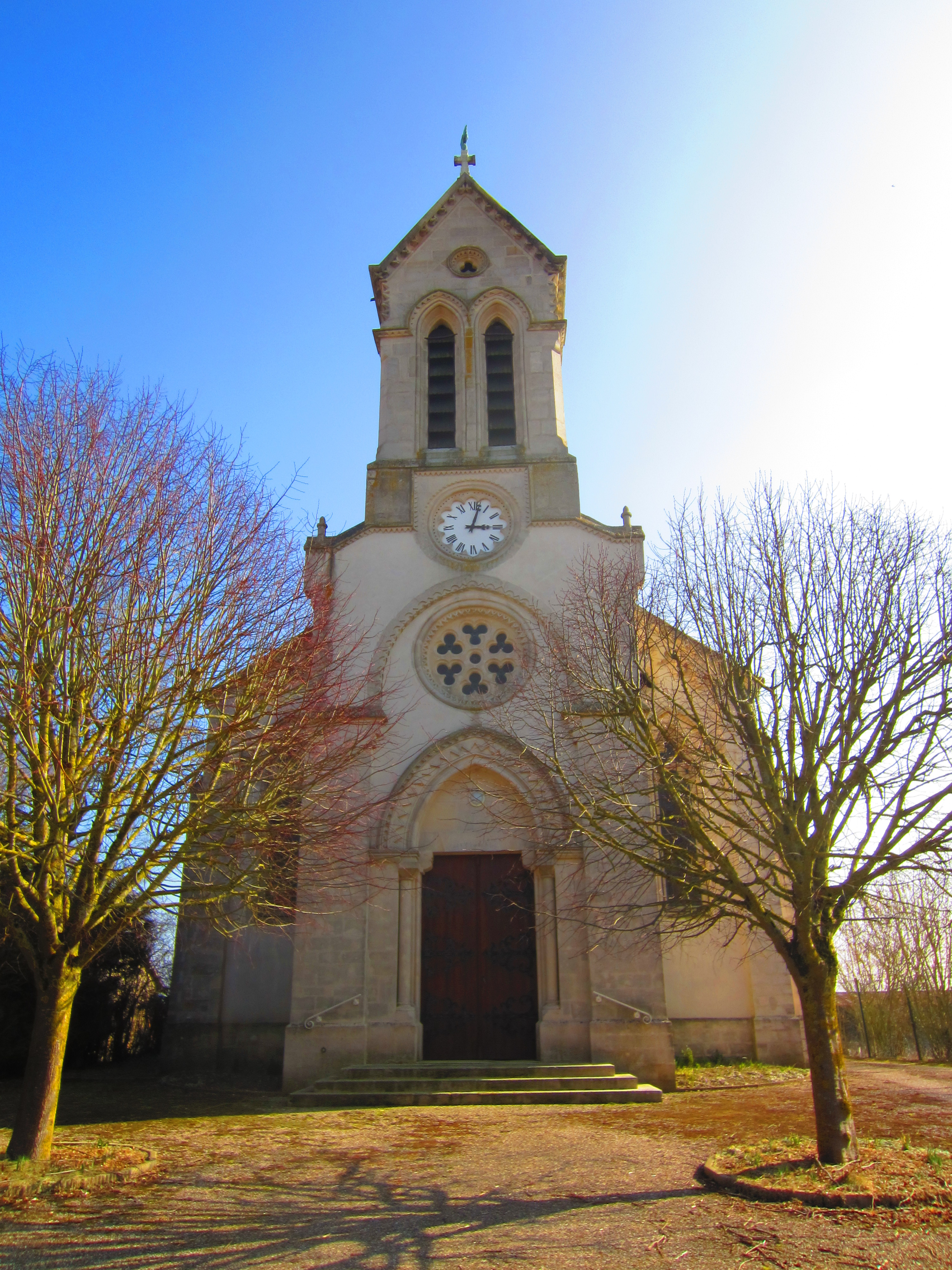 Beaumont 54 church